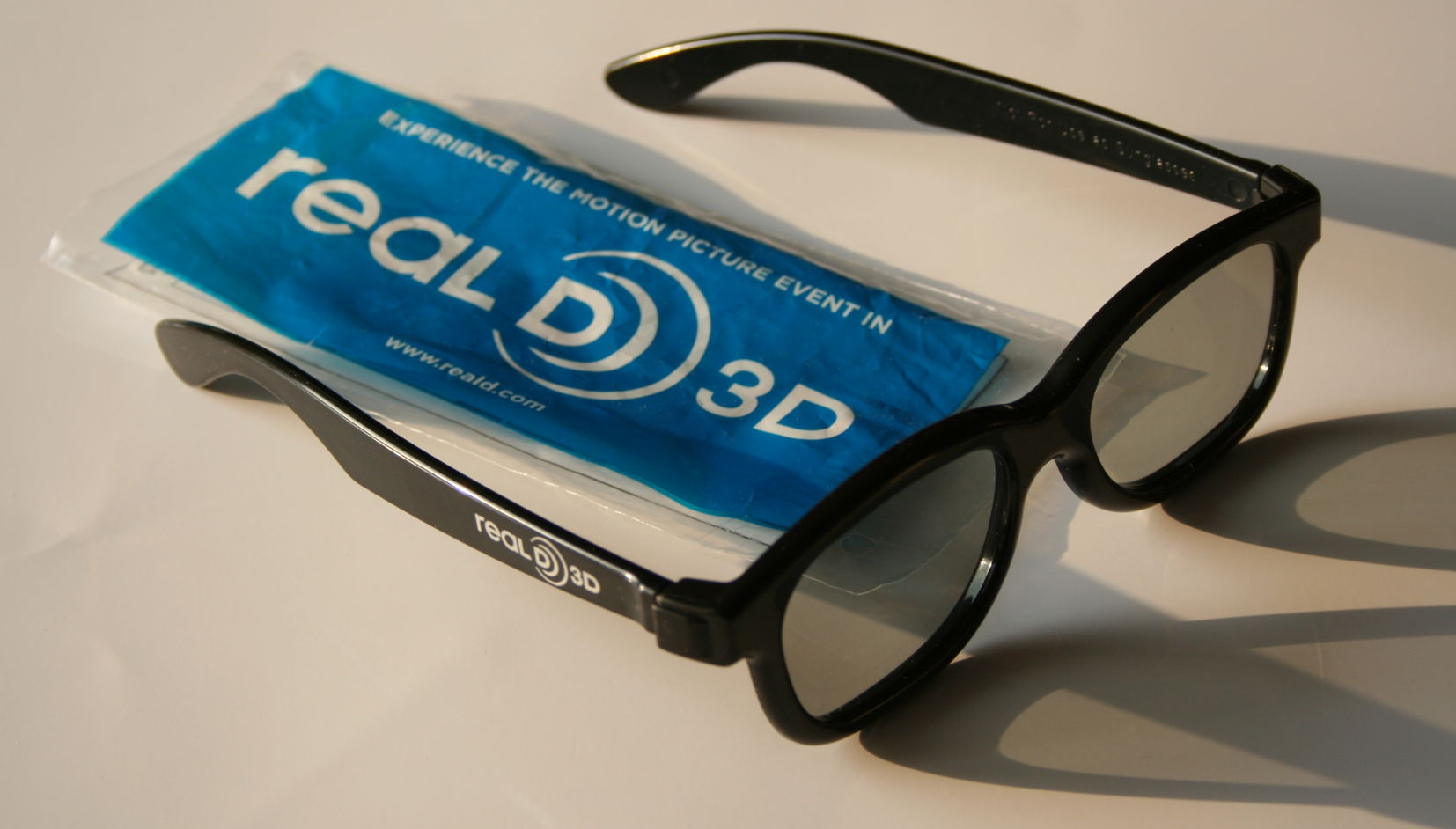 Glasses for the RealD Cinema